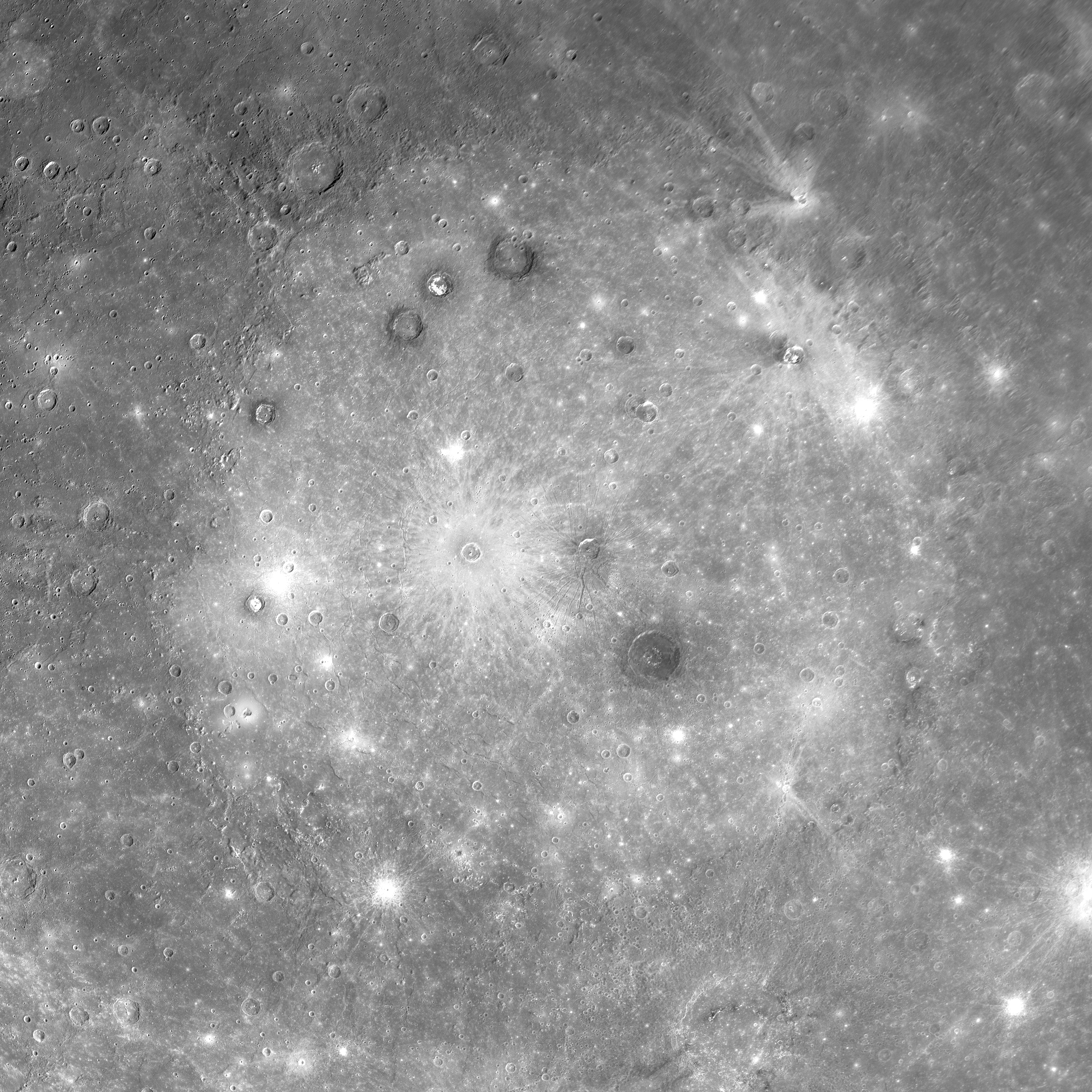 Caloris Planitia on Mercury. Mosaic of images, made by MESSENGER 14 January 2008. Description from MESSENGER site: This view is a mosaic of multiple MDIS images and shows the Caloris basin in its entirety. The Caloris basin was discovered in 1974 from Mariner 10 images, but when Mariner 10 flew by Mercury, only the eastern half of the basin was in daylight. During MESSENGER’s first Mercury flyby, the spacecraft was able to acquire high-resolution images of the entire basin, revealing the full extent of this great basin for the first time.